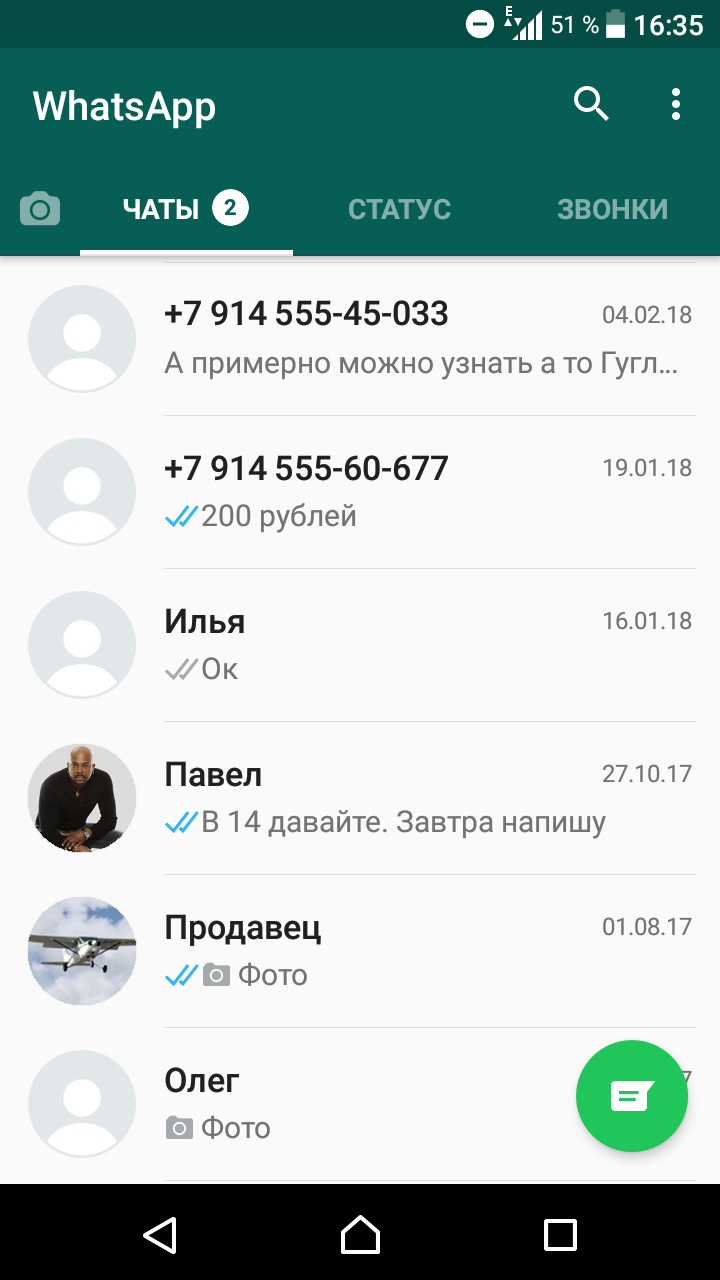 Russian version of WhatsApp - screenshot